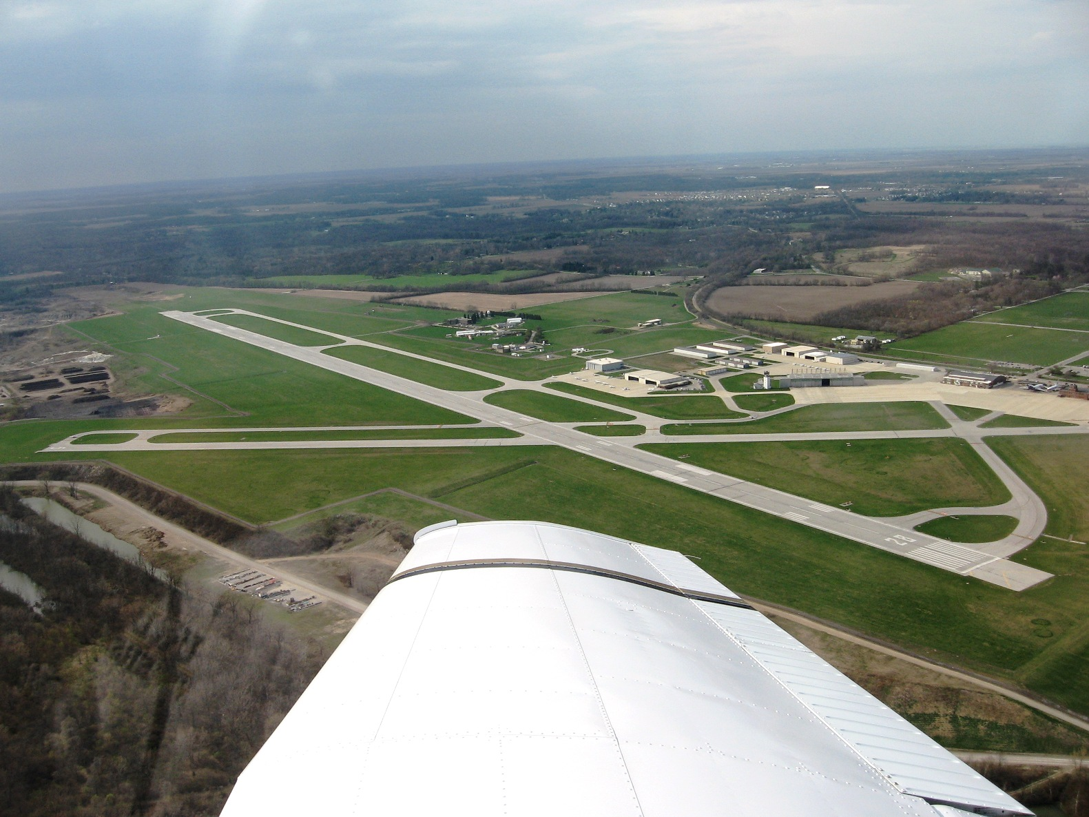 Purdue University Airport as seen from downwind for Runway 5, with the wing of a PA-28 Piper Warrior in the foreground.